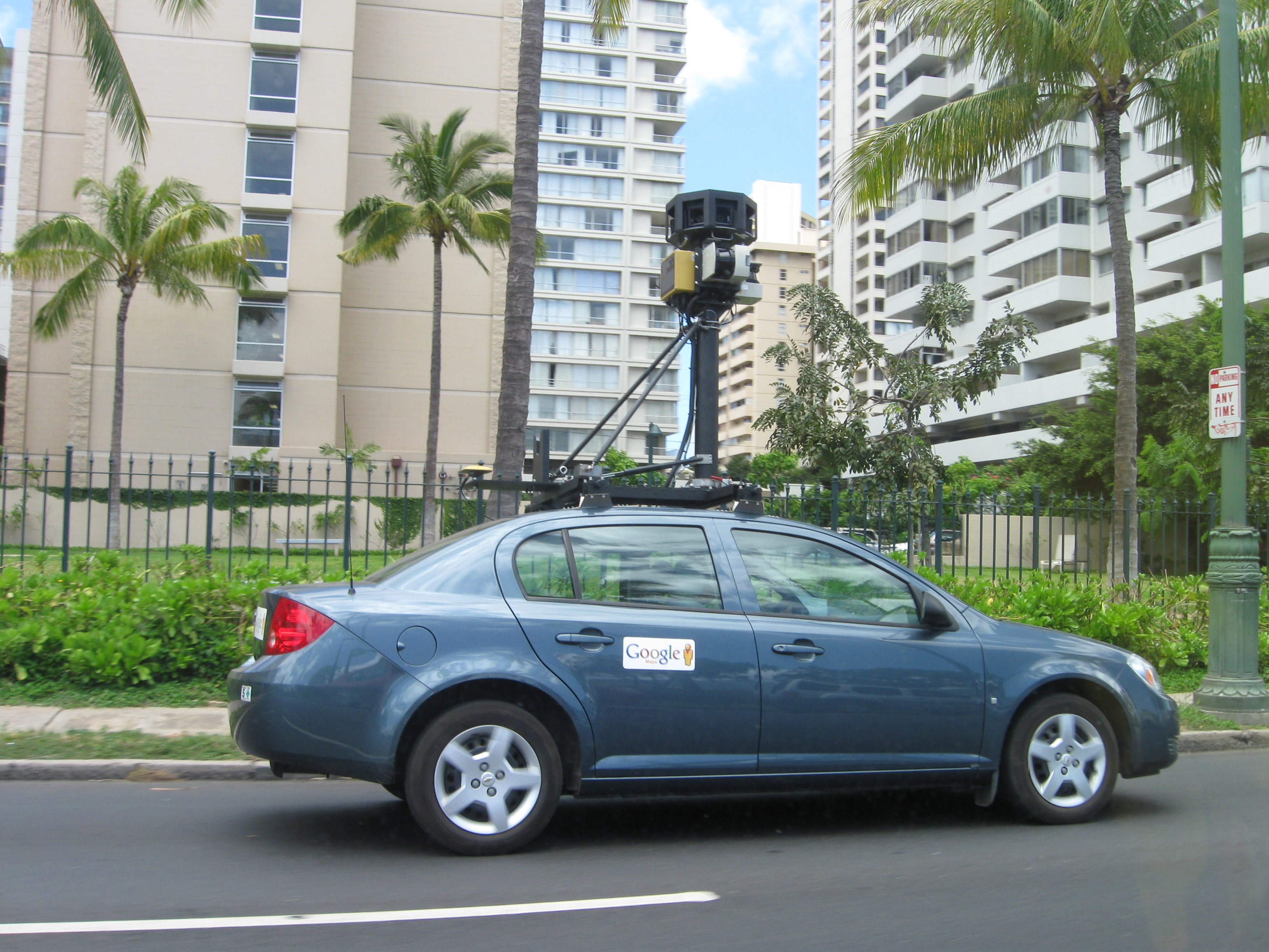 Google Street View Car in Honolulu, Hawaii, United States.